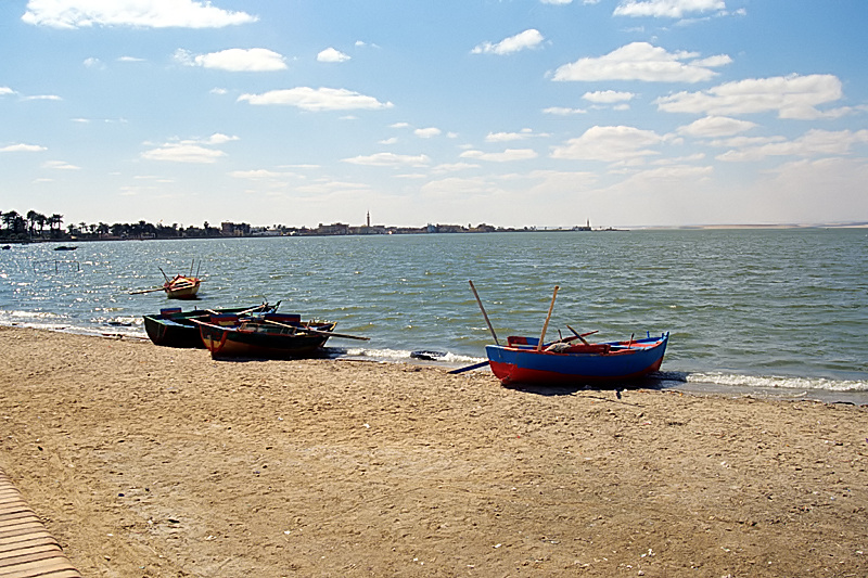 Boats at the Lake Qarun, el-Fayyum, Egypt